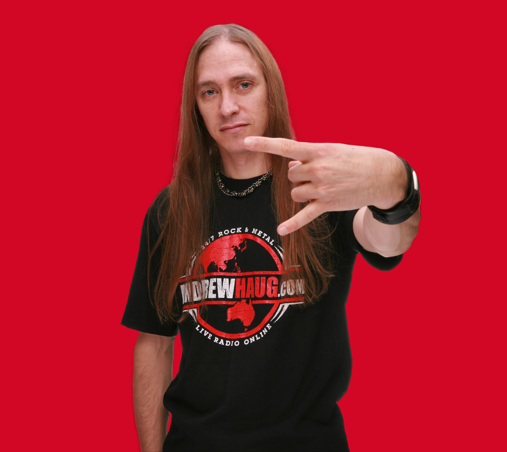 Andrew Haug Radio Host